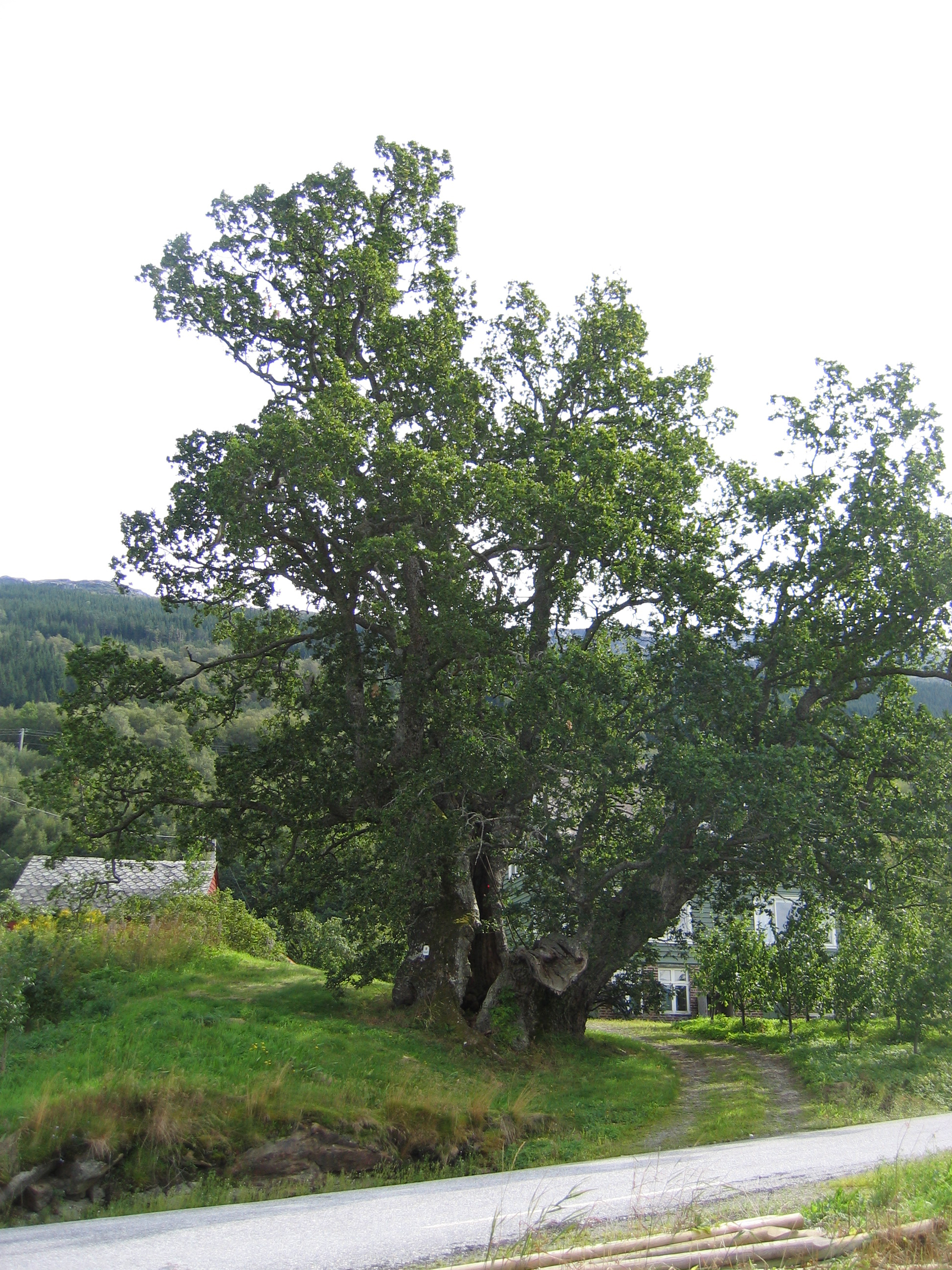 "Brureika", Lothe, Ullensvang, Norway, Photo: Olav Vindal